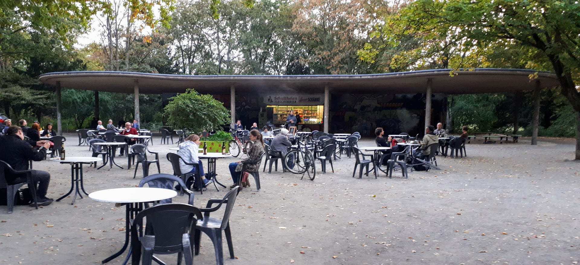 The Hasenschänke cafe in the middle of Hasenheide park in Berlin Neukölln